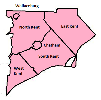 Map of Chatham-Kent, Ontario's wards